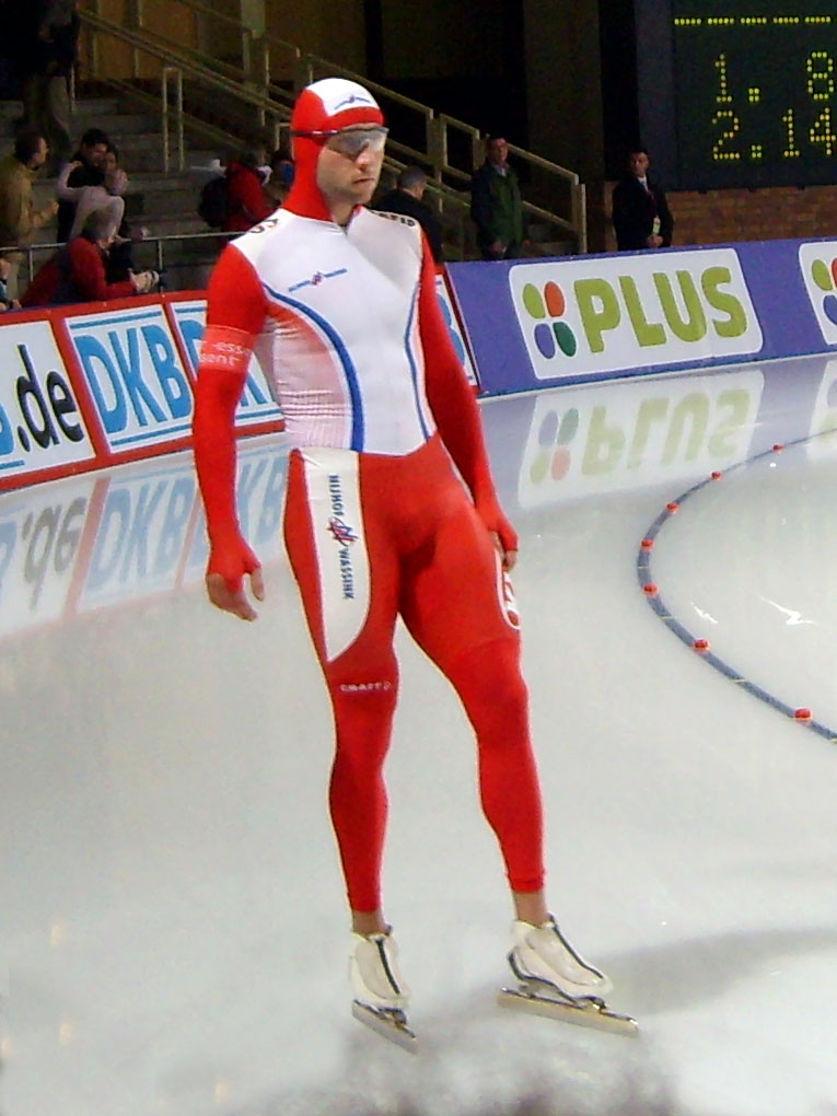 Konrad Niedźwiedzki (POL) befor 1500 meters world cup speedskating race in Berlin, Germany.